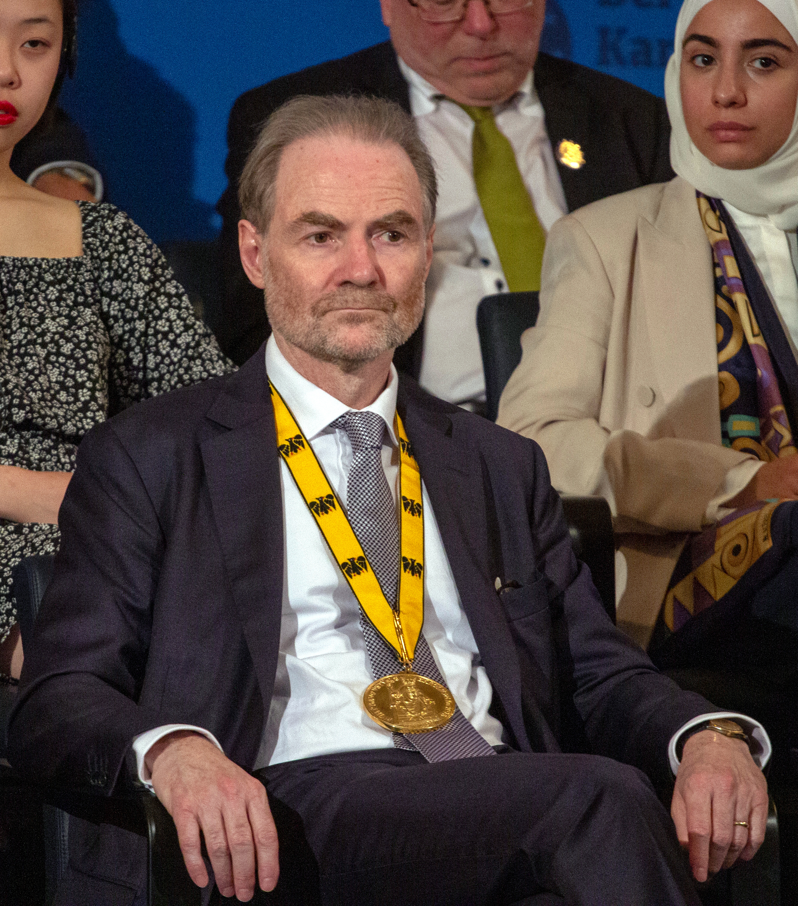 Timothy Garton Ash at Aachen Town Hall: Charlemagne Prize 2019.